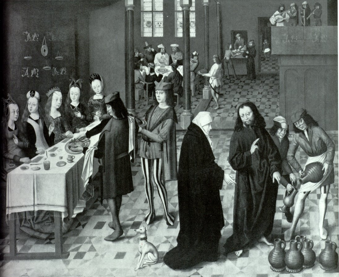 The Marriage at Cana (ca. 1481, DE: Hochzeit zu Kana, in a private collection. Oil on wood, 830 x 990 cm